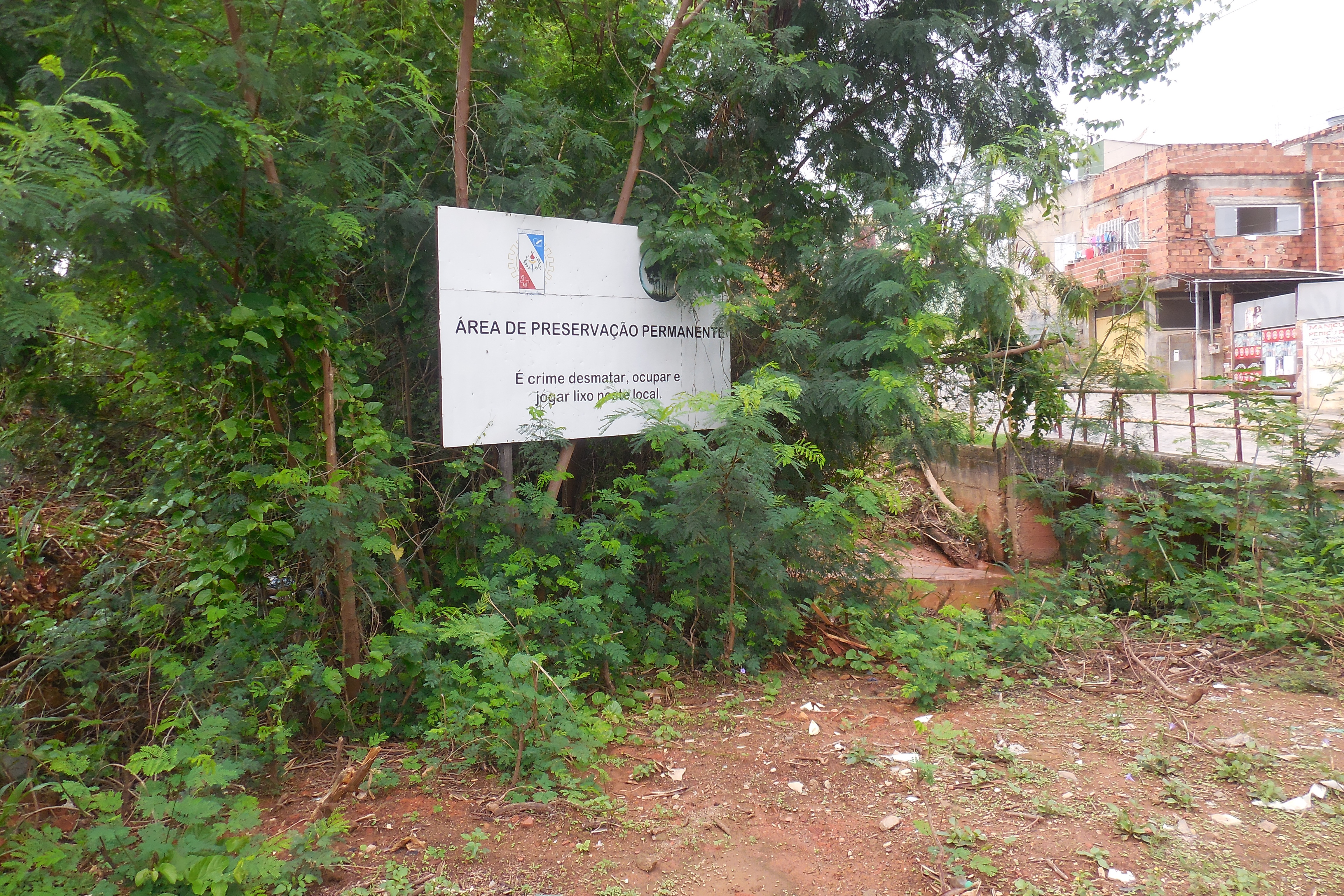 Permanent preservation area in the Caladinho stream, in the Morada do Vale neighborhood, in Coronel Fabriciano, Minas Gerais, Brazil.